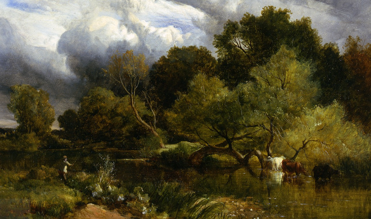 "The Angler's Corner", Oil on canvas, 9 x 15 inches